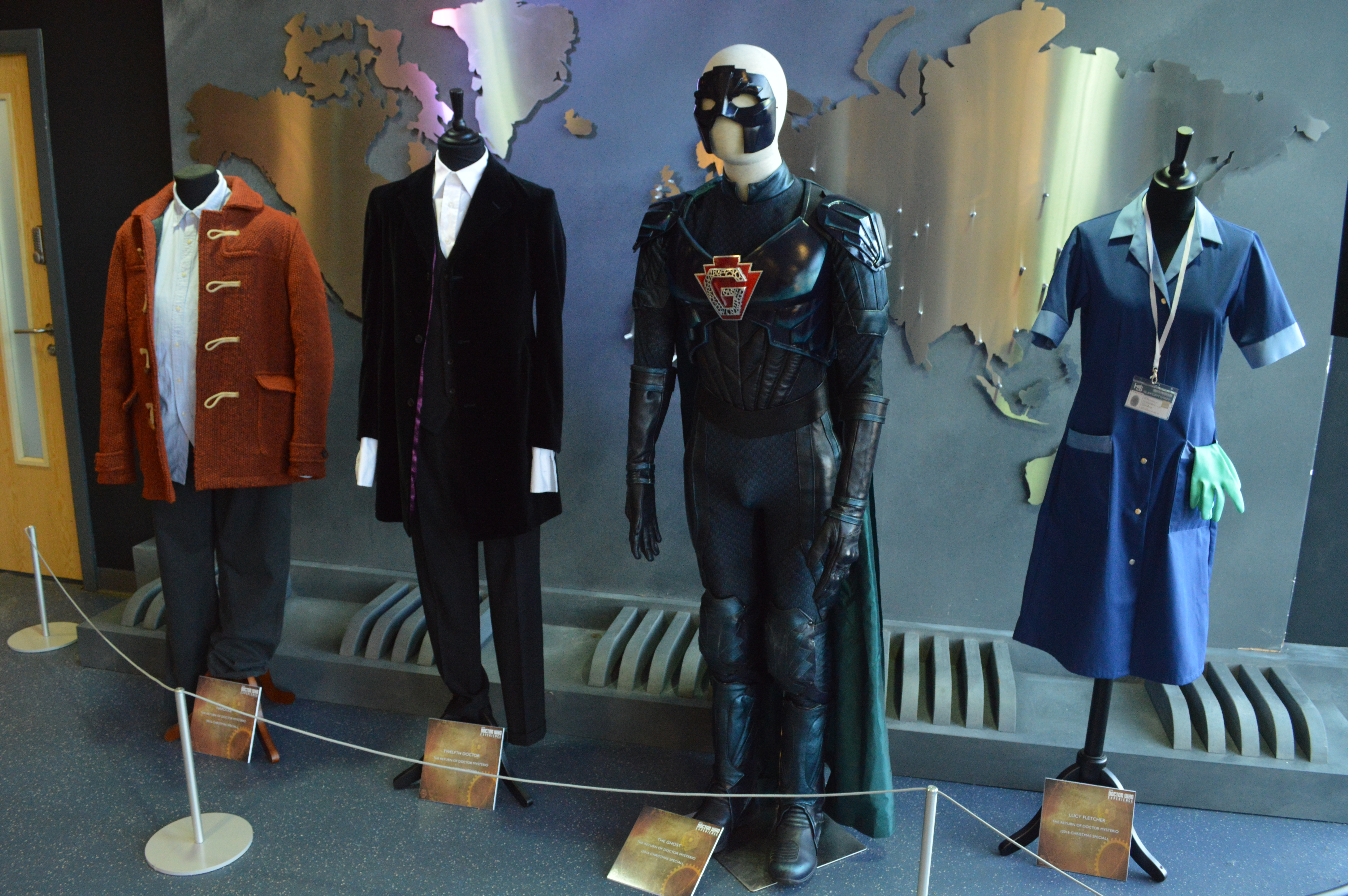 (From left to right) Nardole's, 12th Doctor, The Ghost and Lucy Fletcher Doctor Who Experience